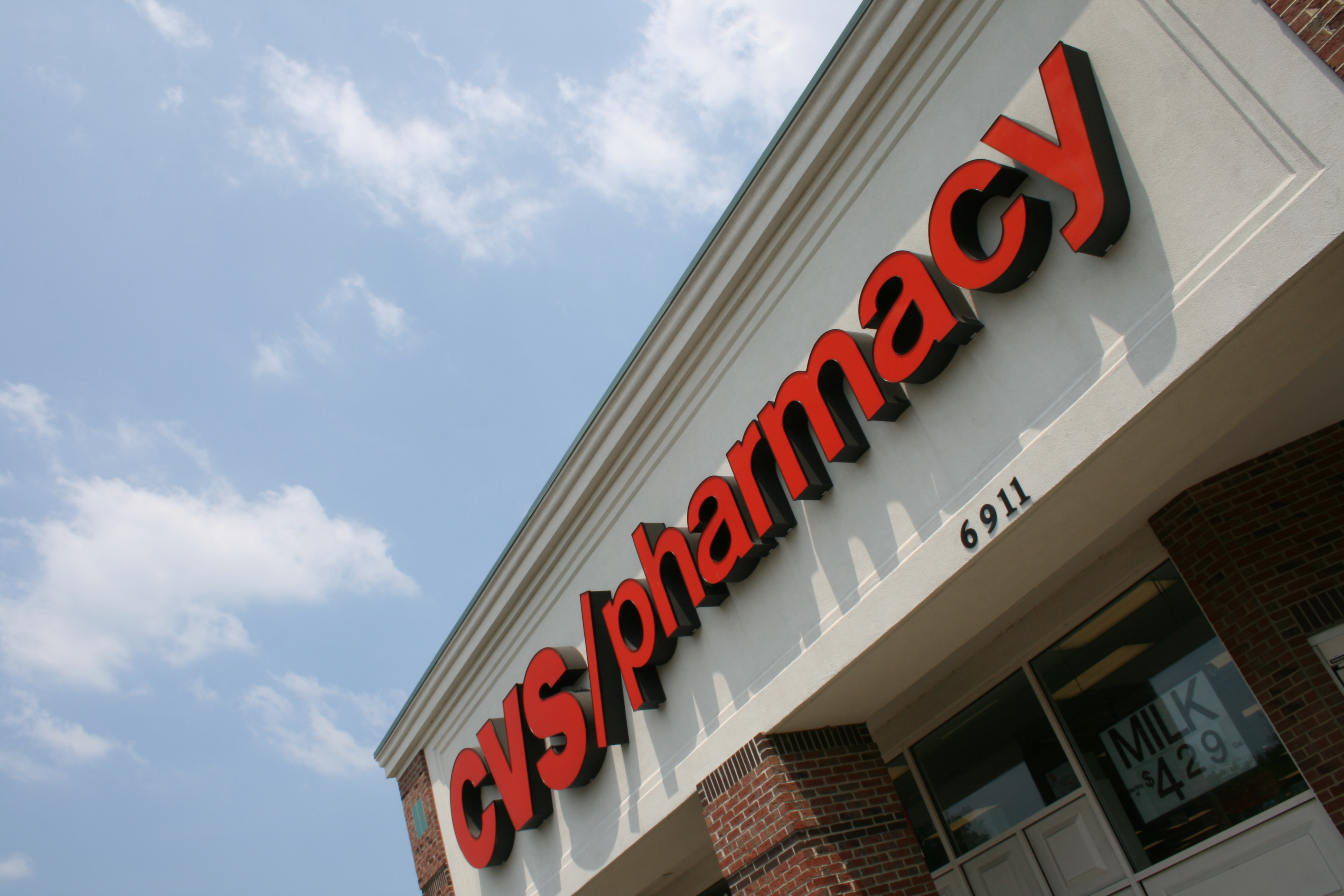 CVS/pharmacy on Garrett Road in Durham, North Carolina.